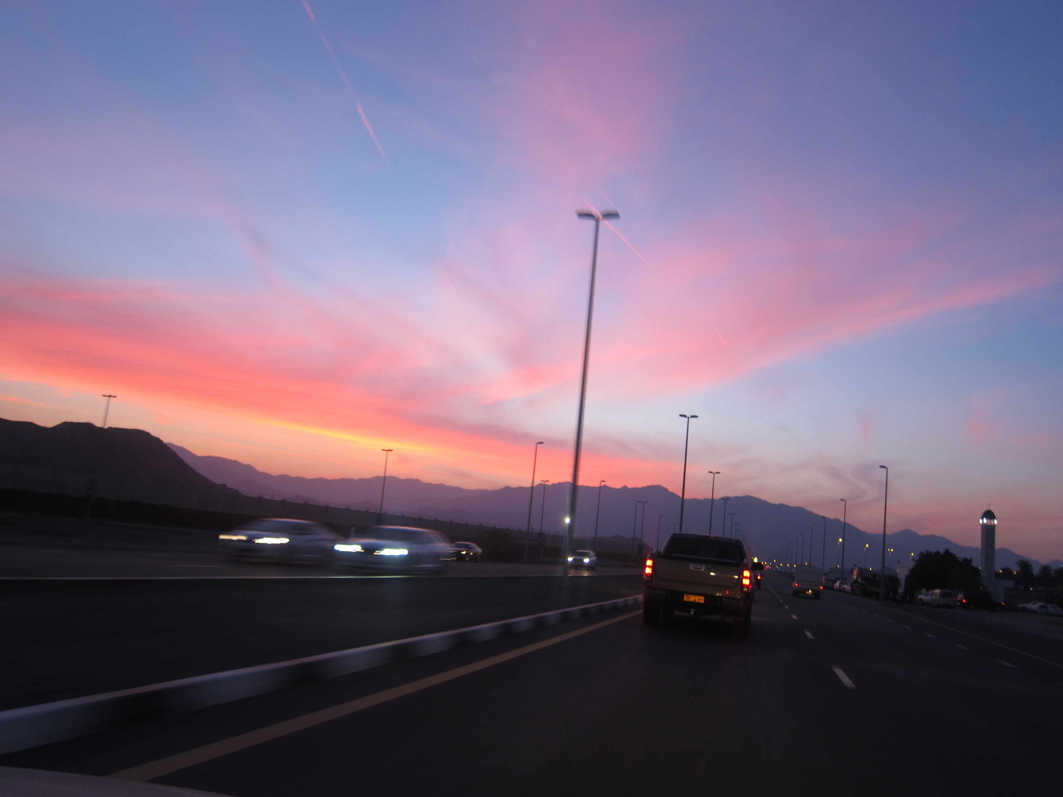 Sunset in Fujaira - ഫുജൈറയിലെ സൂര്യസ്തമയം